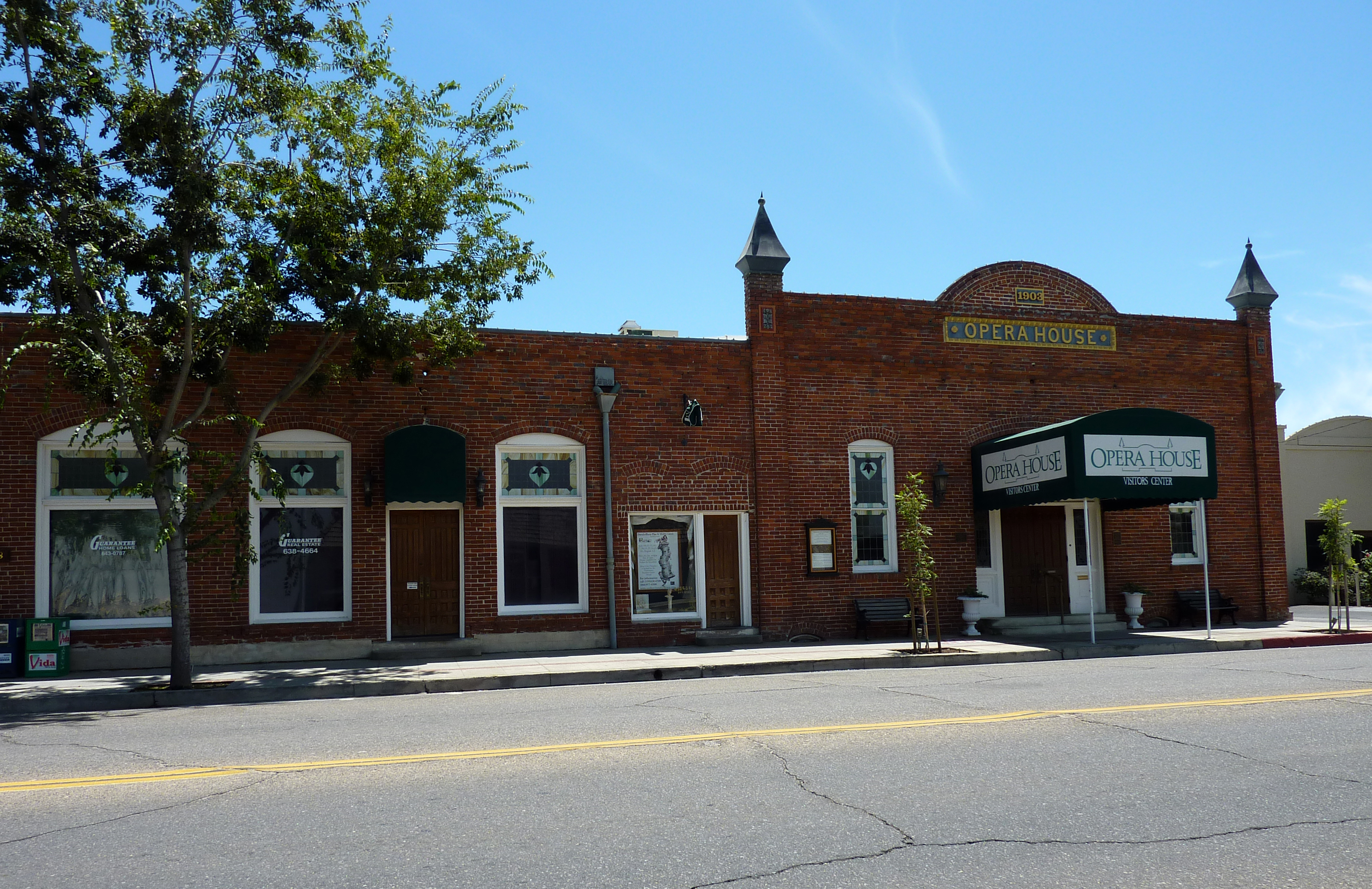 Reedley Opera House Complex, Reedley, Fresno County, California, USA.